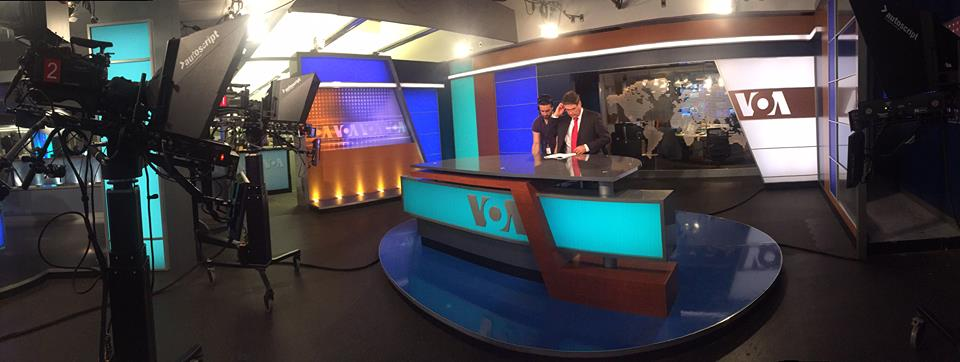 Voice of America